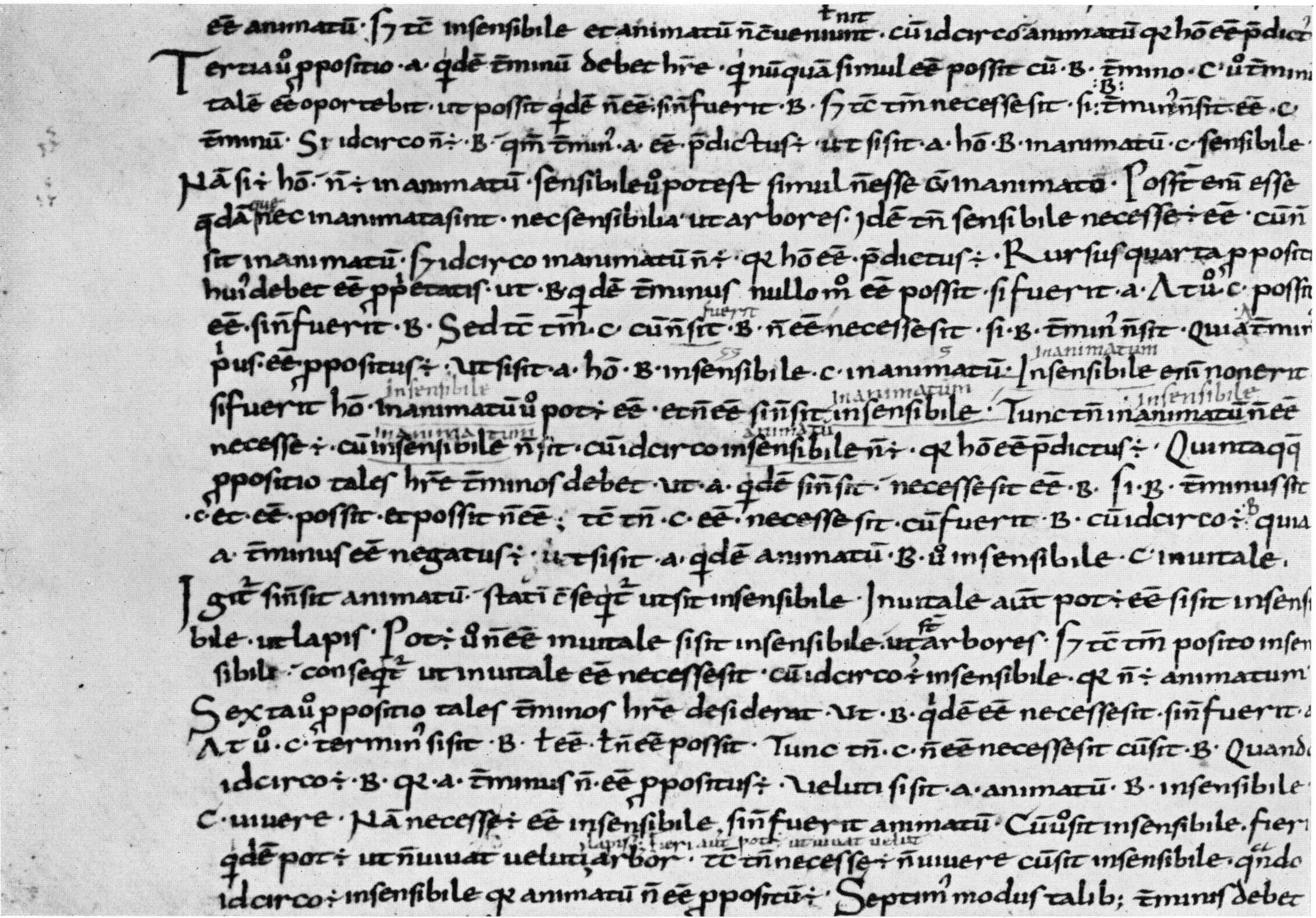 Boethius, De hypotheticis syllogismis. Manuscript Paris, Bibliothèque Nationale, N.A. Lat. 1611, fol. 43v.